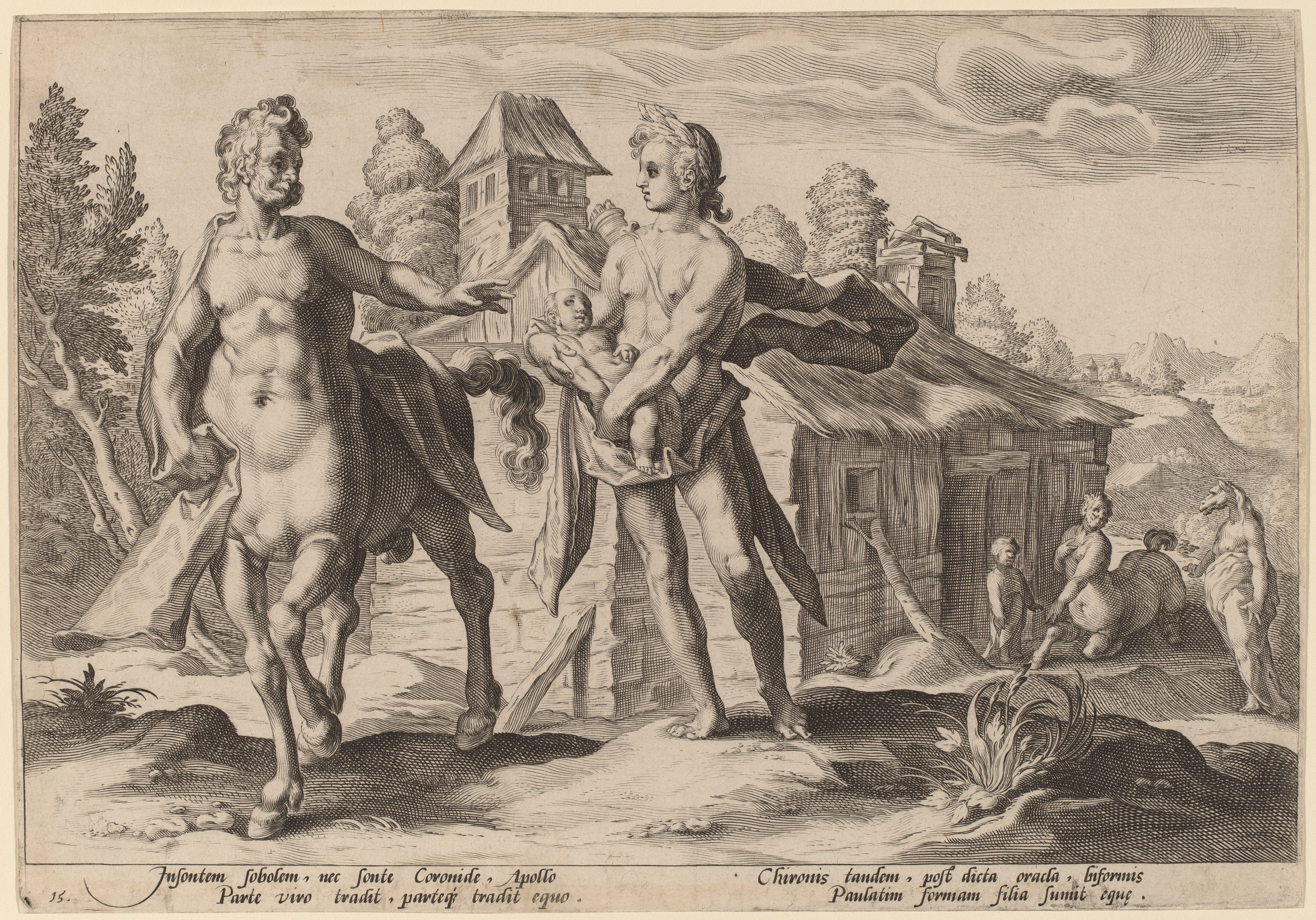 Dutch 16th Century after Hendrik Goltzius, Apollo Entrusting Chiron with the Education of Aescalapius, 1590, engraving on laid paper, Gift of Charles Hack